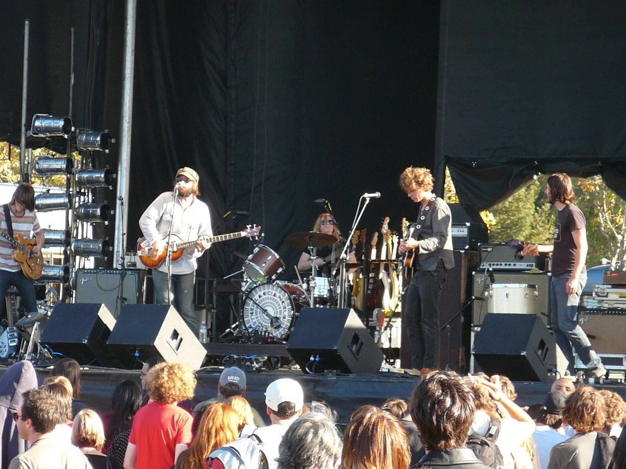 The Black Angels, Download Festival 2007